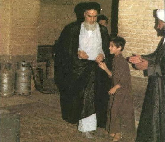 Ruhollah Khomeini in Iraq.